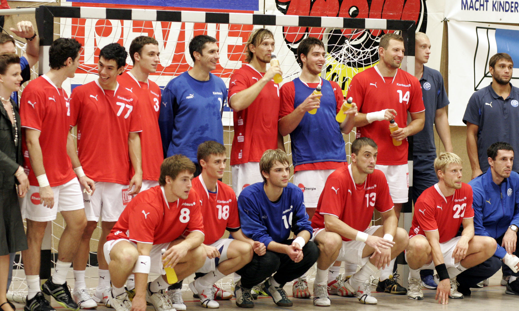 The team of VfL Gummersbach during the Schlecker Cup 2007 in Ehingen (Germany)